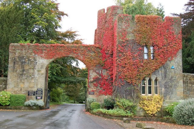 Hulne Park Gate Lodge Stunning place to live, there was someone opened the door when we were walking past... there's also lots of signs warning of Red Squirels crossing...